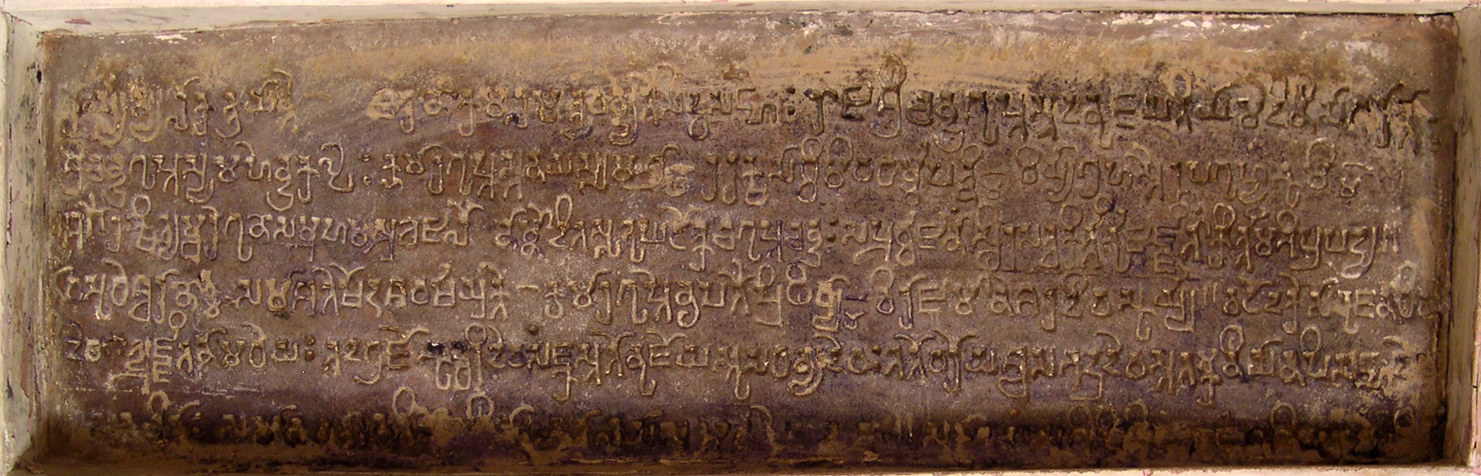 Inscription of Kumaragupta from Tumain, Madhya Pradesh, India.